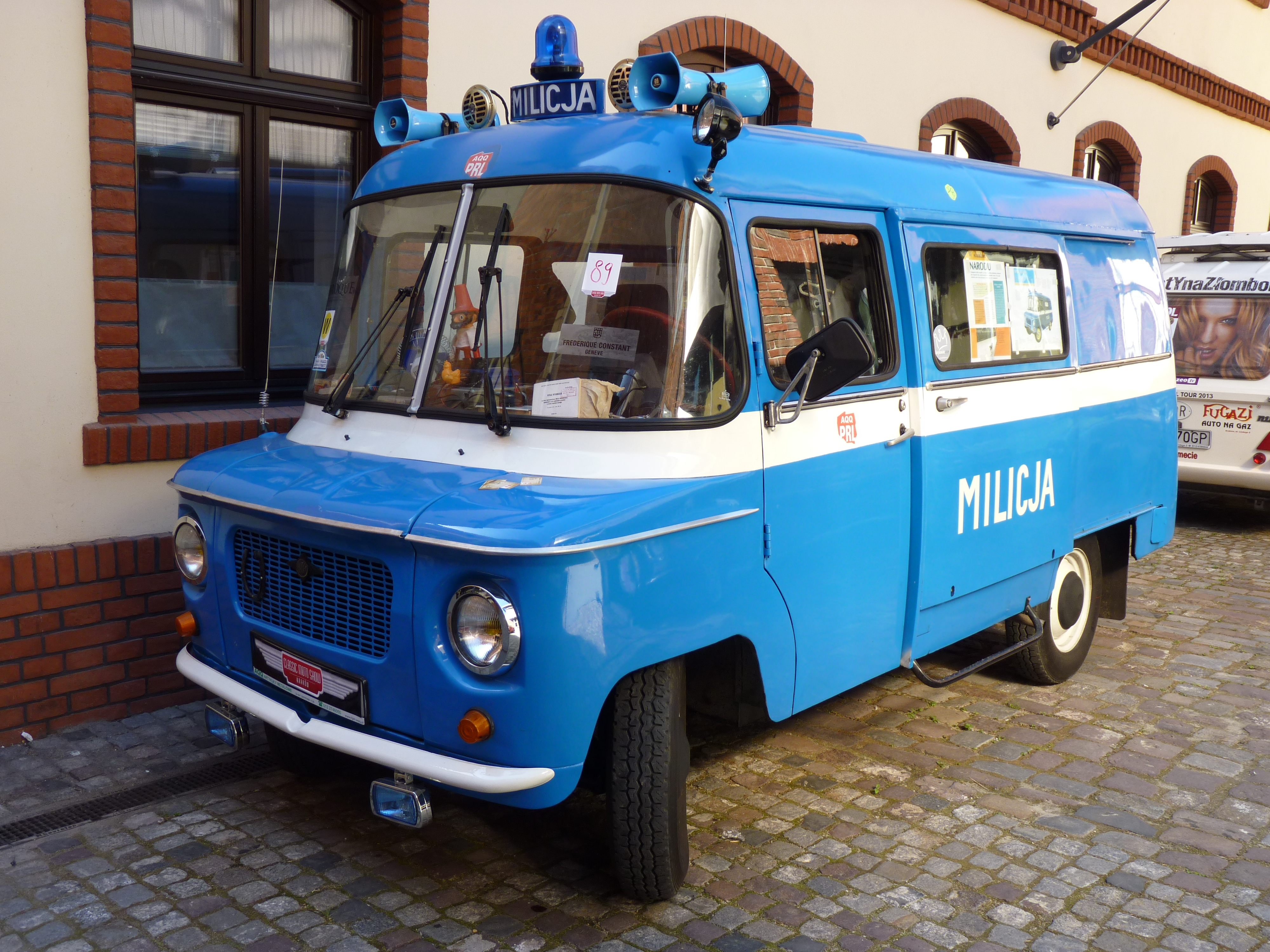 Classic Moto Show 2013